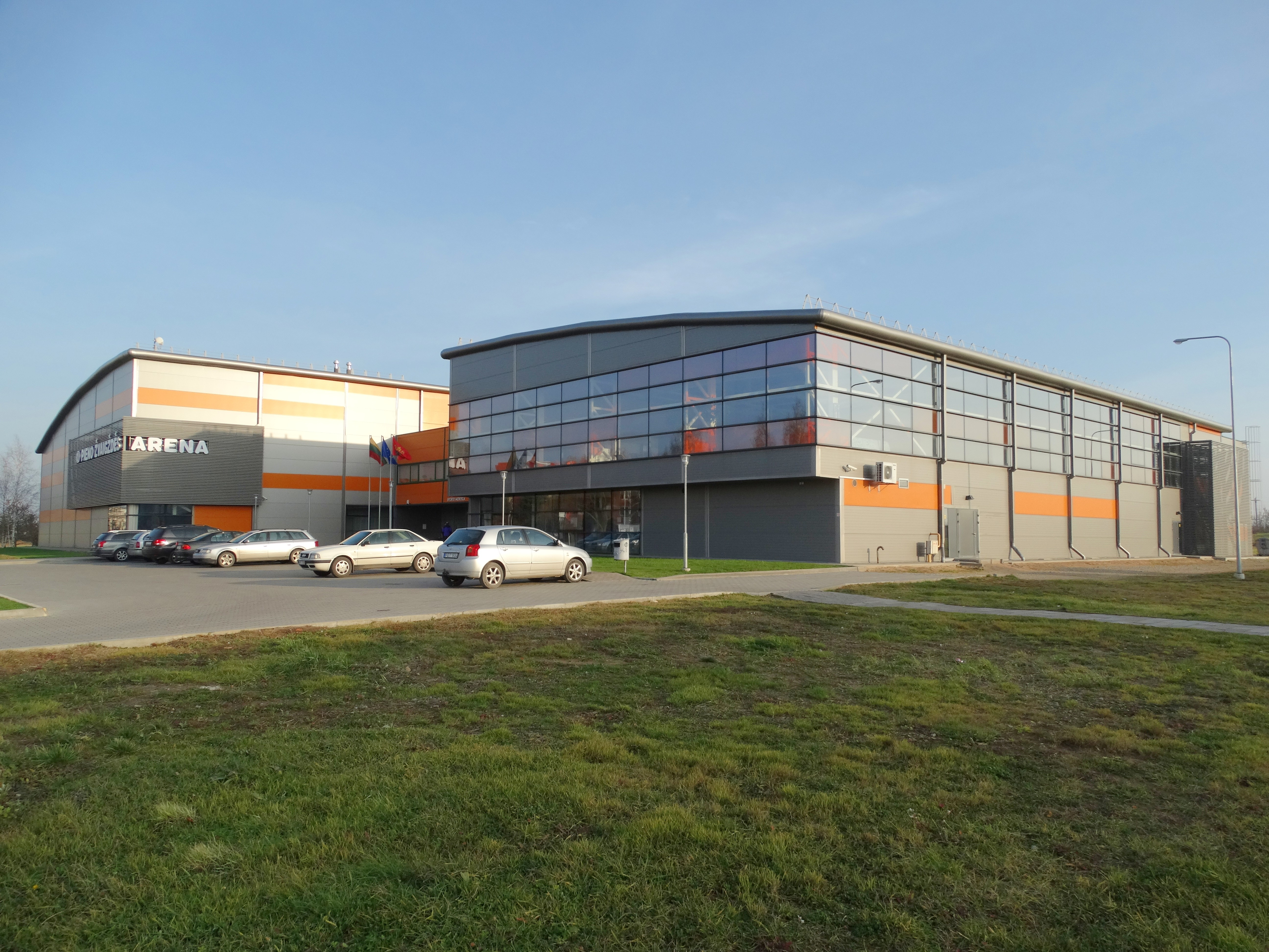 „Pieno žvaigždės“, entertainment and sports arena, Pasvalys, Lithuania